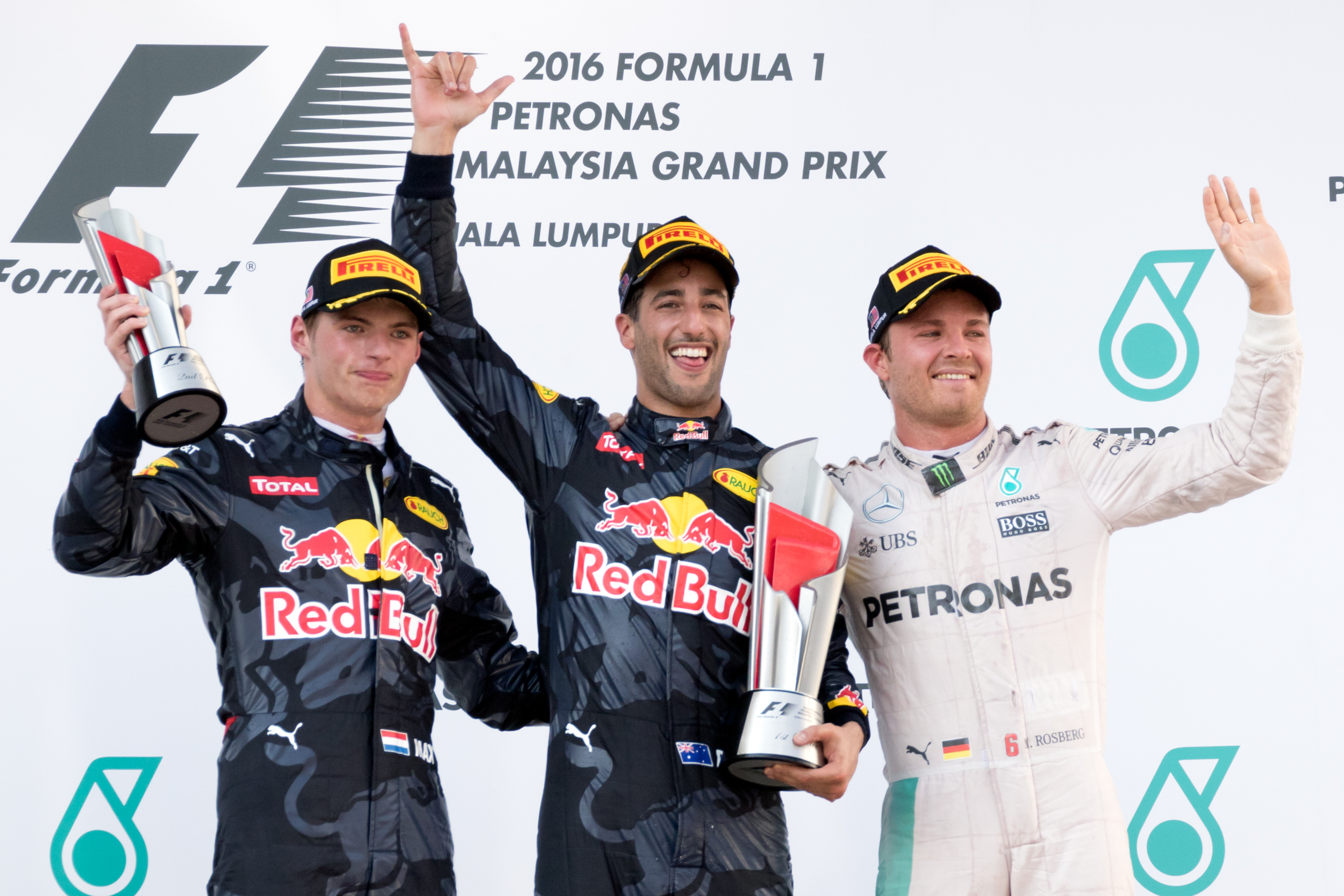 Formula One 2016 Rd.16 Malaysian GP: from left to right - Max Verstappen (Red Bull), Daniel Ricciardo (Red Bull), and Nico Rosberg (Mercedes GP)